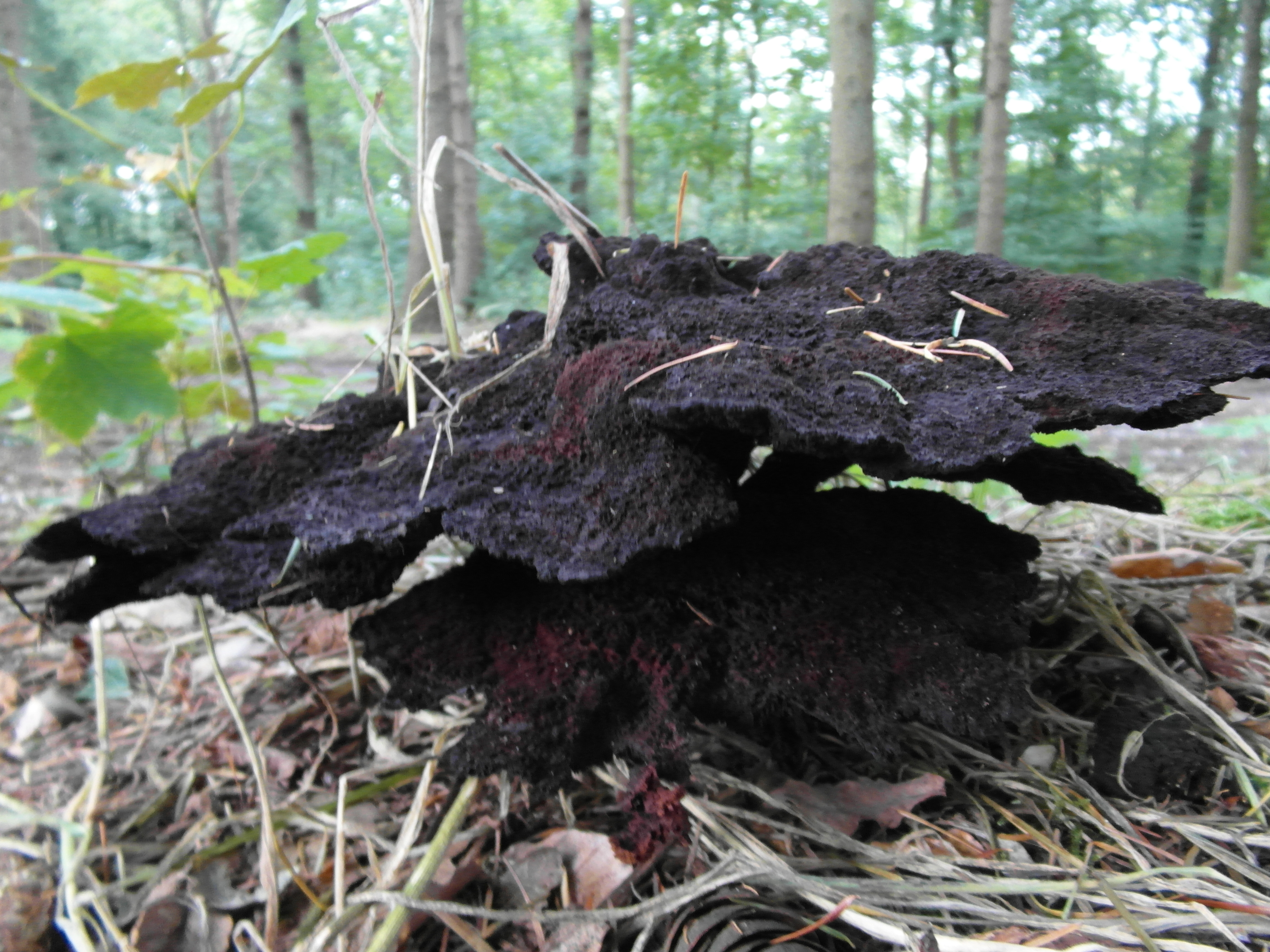 'n Ou sporokarp van Phaeolus schweinitzii wat hard en swat geword het, in een Nederlandse naaldbos